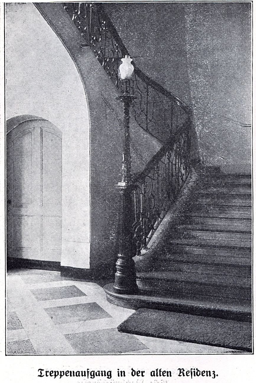 Statthalterpalais an der Mühlenstraße in Düsseldorf; frühklassizistisches Palais erbaut 1766 von Hofbaumeister Ignatius Kees als Sitz des kurfürstlichen Statthalters, "Treppenaufgang in der alten Residenz".jpg